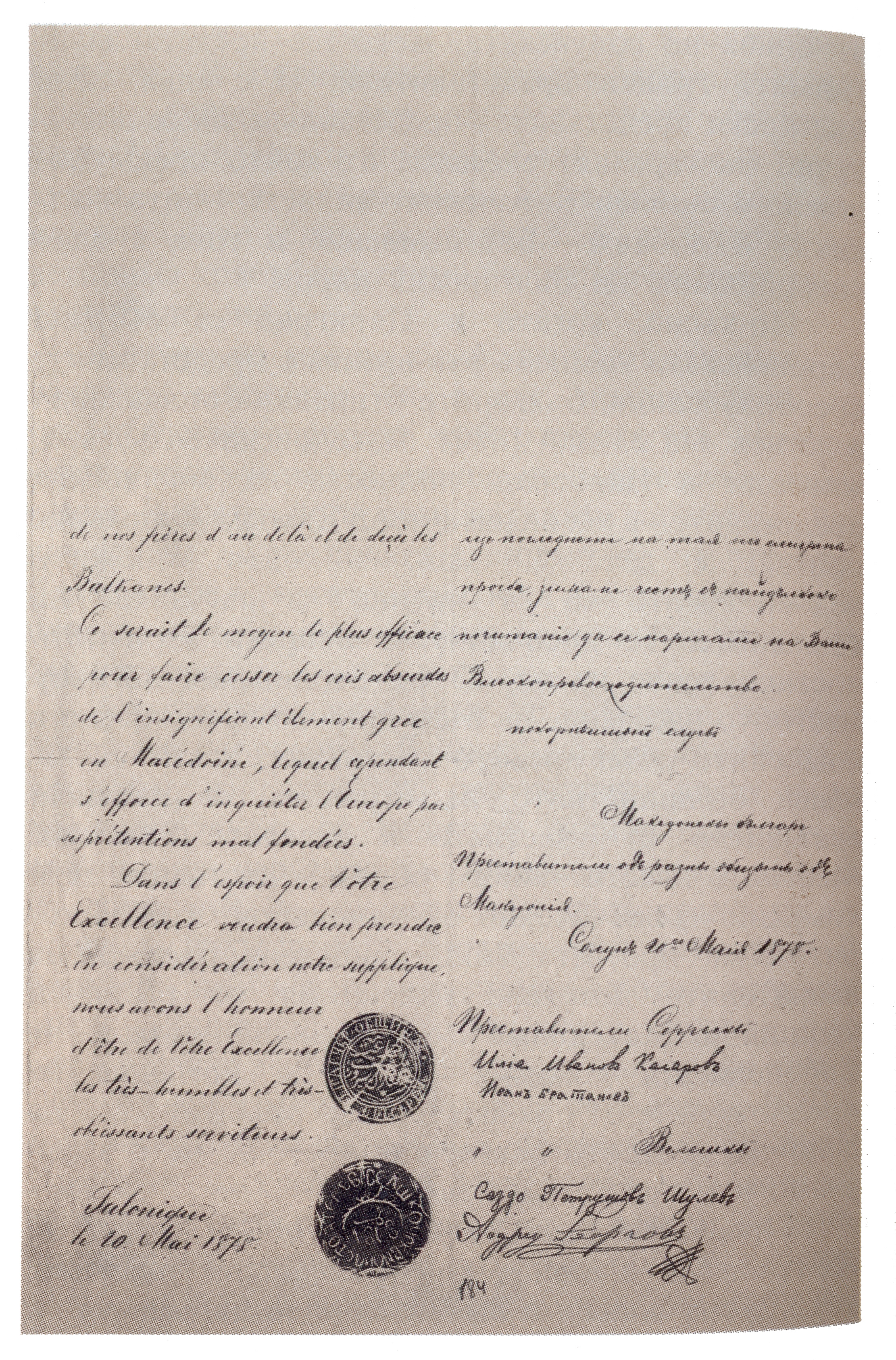 Memorandum of the Macedonian Bulgarian Municipalities to the Great Powers for unification with Bulgaria. Page 2